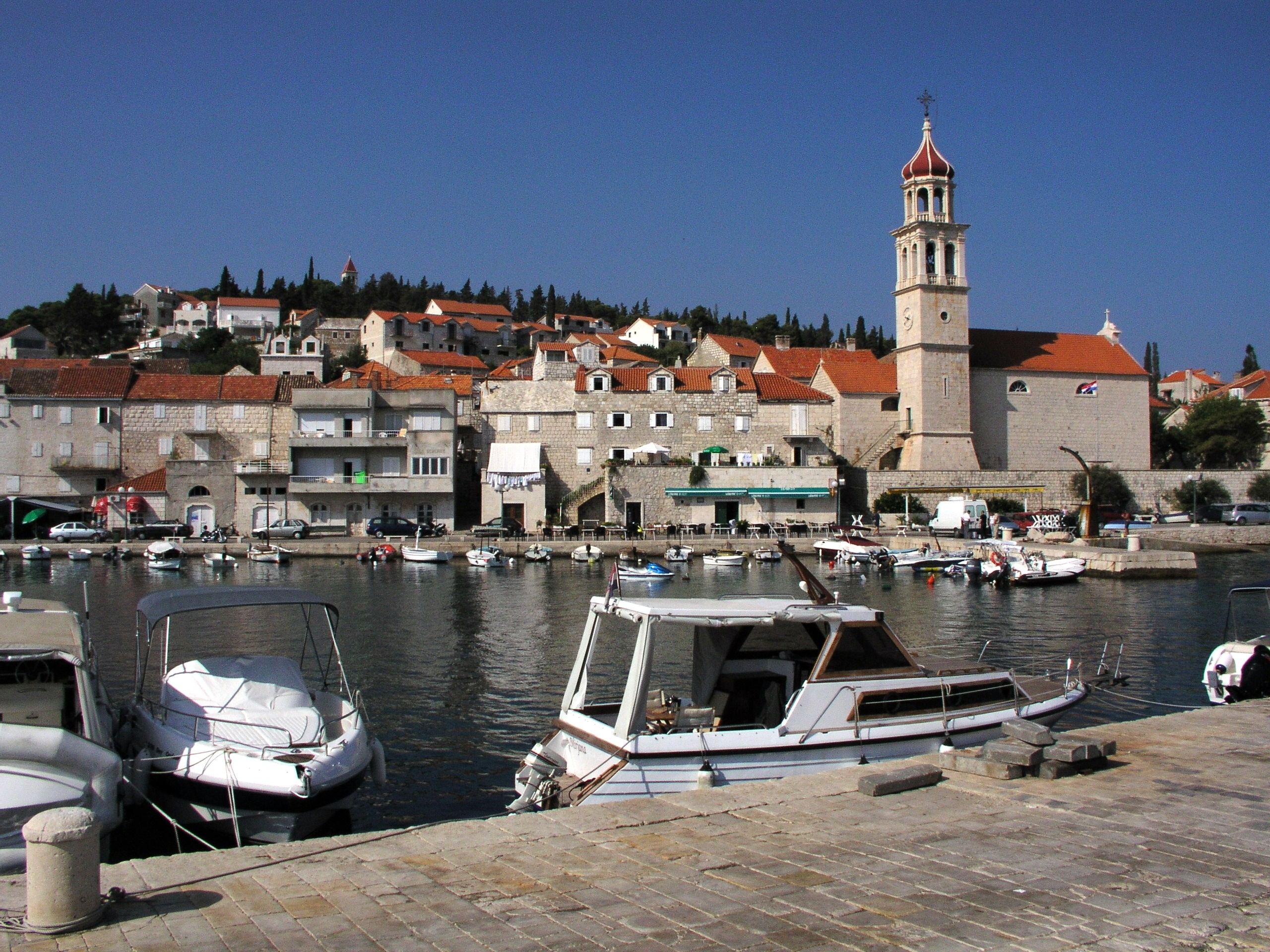 Sutivan Village, Brač Island, Croatia